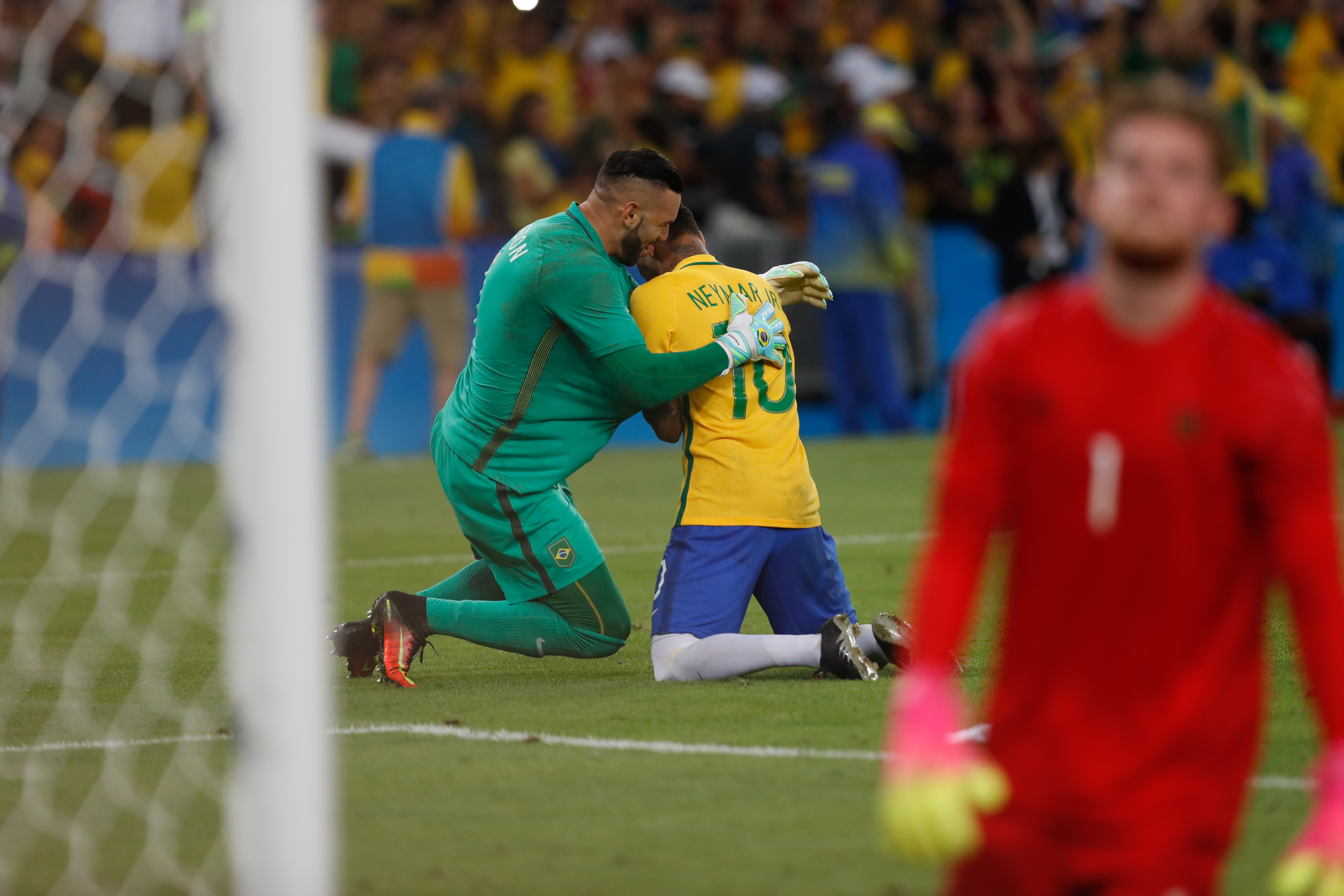 Rio de Janeiro - Brasil vence Alemanha e conquista primeiro ouro olímpico do futebol (Fernando Frazão/Agência Brasil)